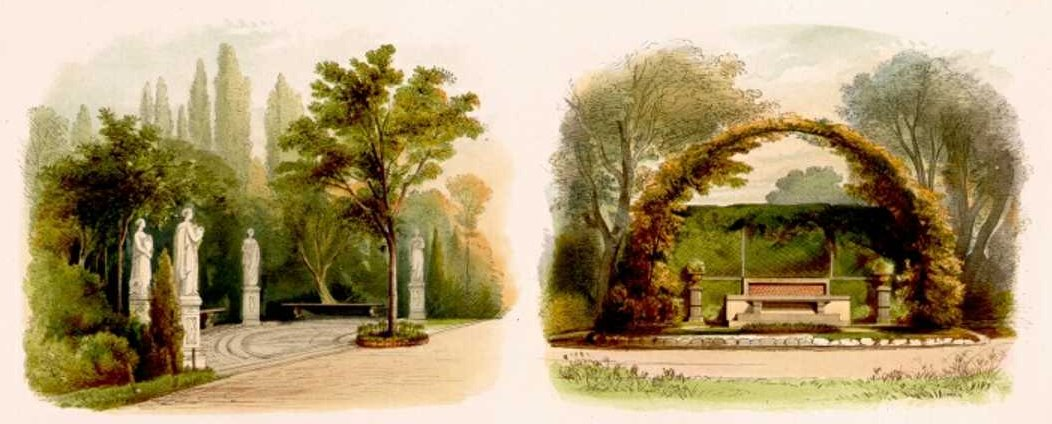 Picture from Image:Rheinanlage 07.jpg